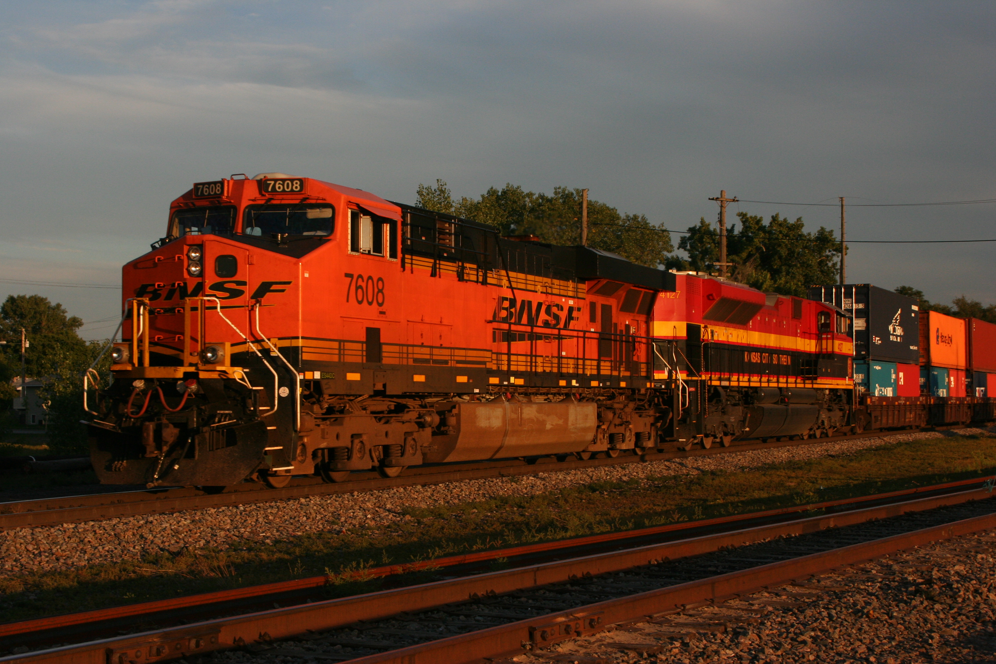 BNSF 7608 pulling a freight at Harrison Street in Minneapolis, MN at dusk.